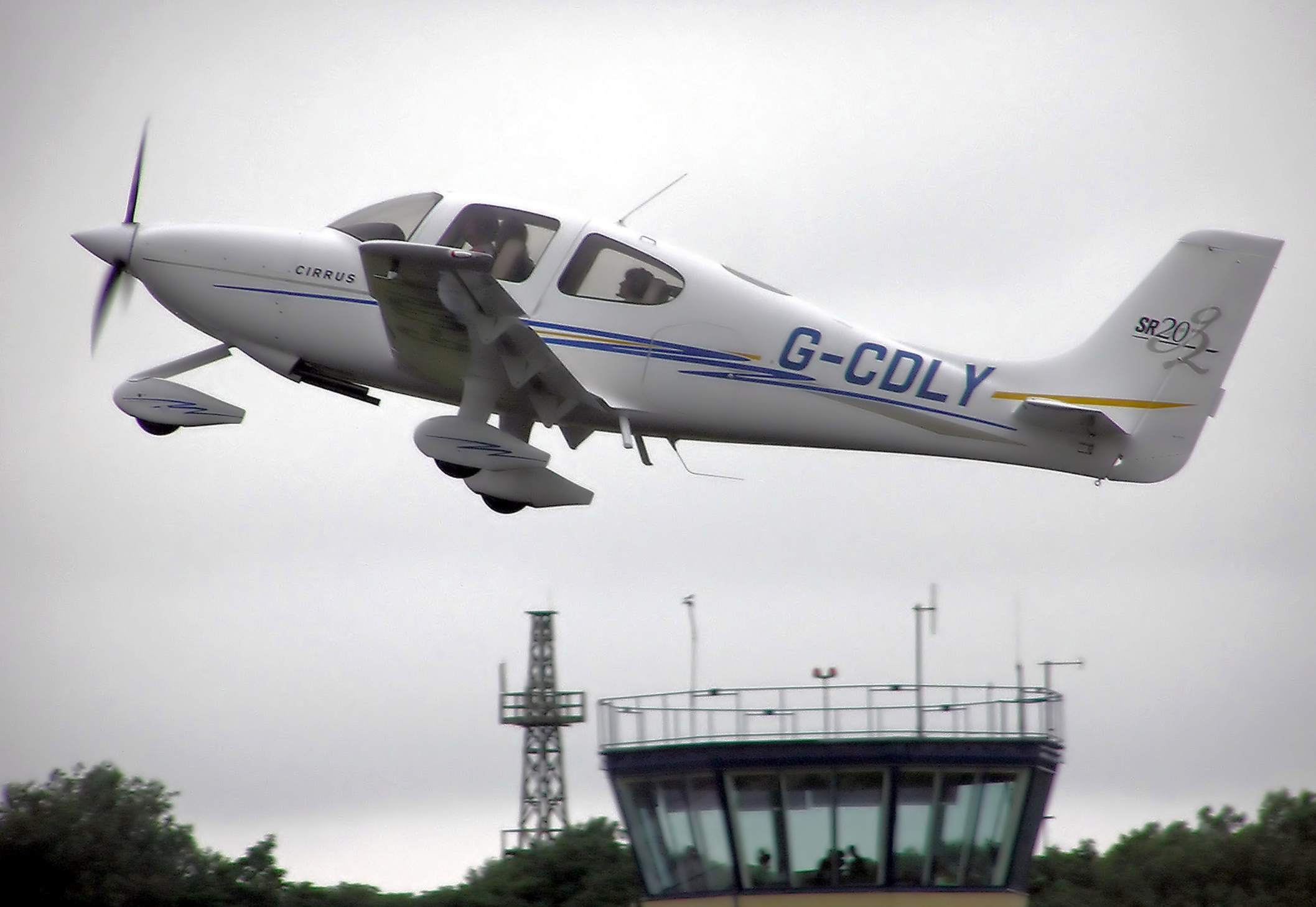 Cirrus Design Corporation SR20 (UK registration G-CDLY, year of build 2005) at Kemble Airfield, Gloucestershire, England. Photographed by Adrian Pingstone in June 2005 and released to the public domain.